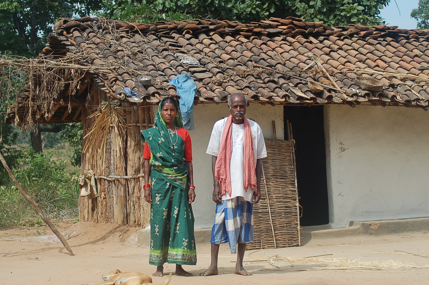 Adivasi couple, Chhattisgarh, India.